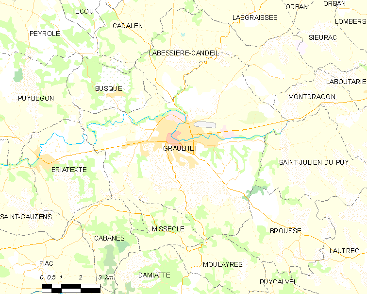 Map of French municipality Graulhet